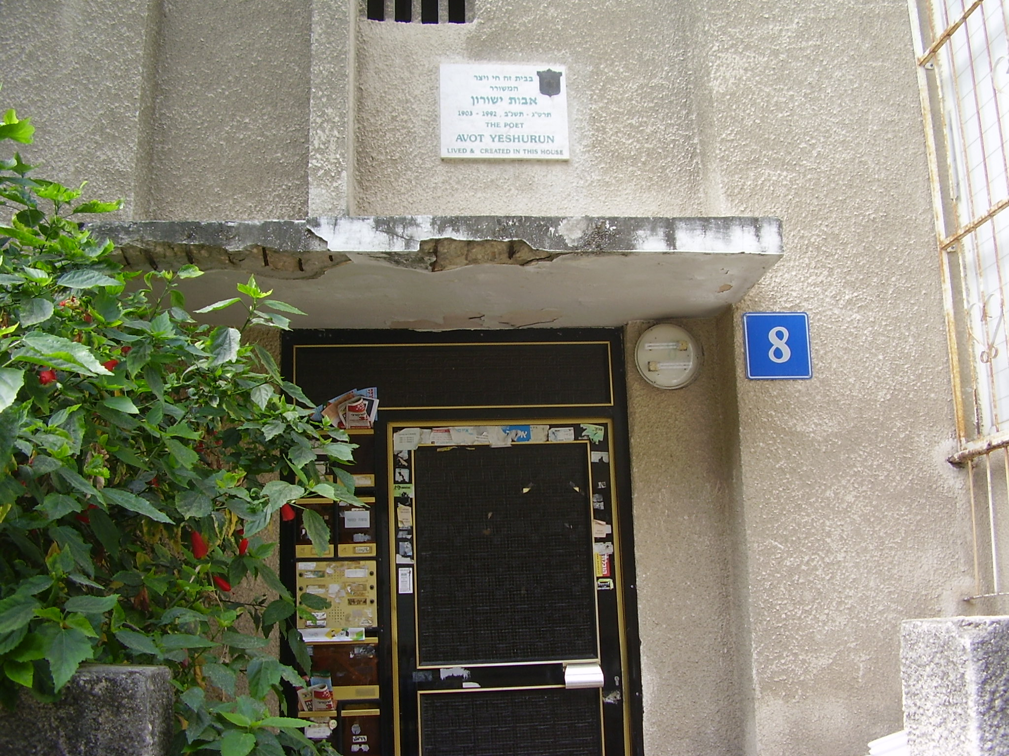 House of the poet Avot Yeshurun in Tel Aviv